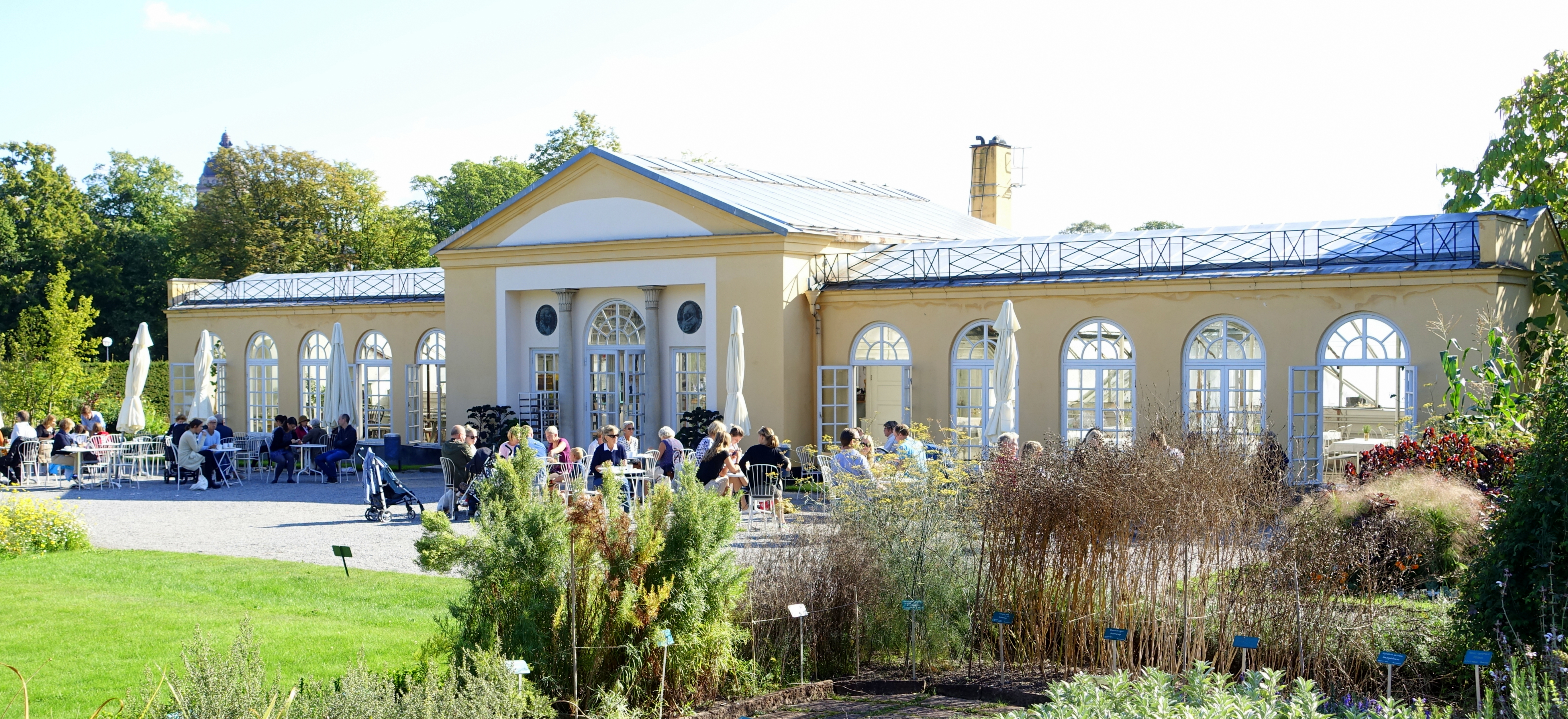 Gamla Orangeriet (Old Orangerie) - Bergianska trädgården - Stockholm, Sweden.